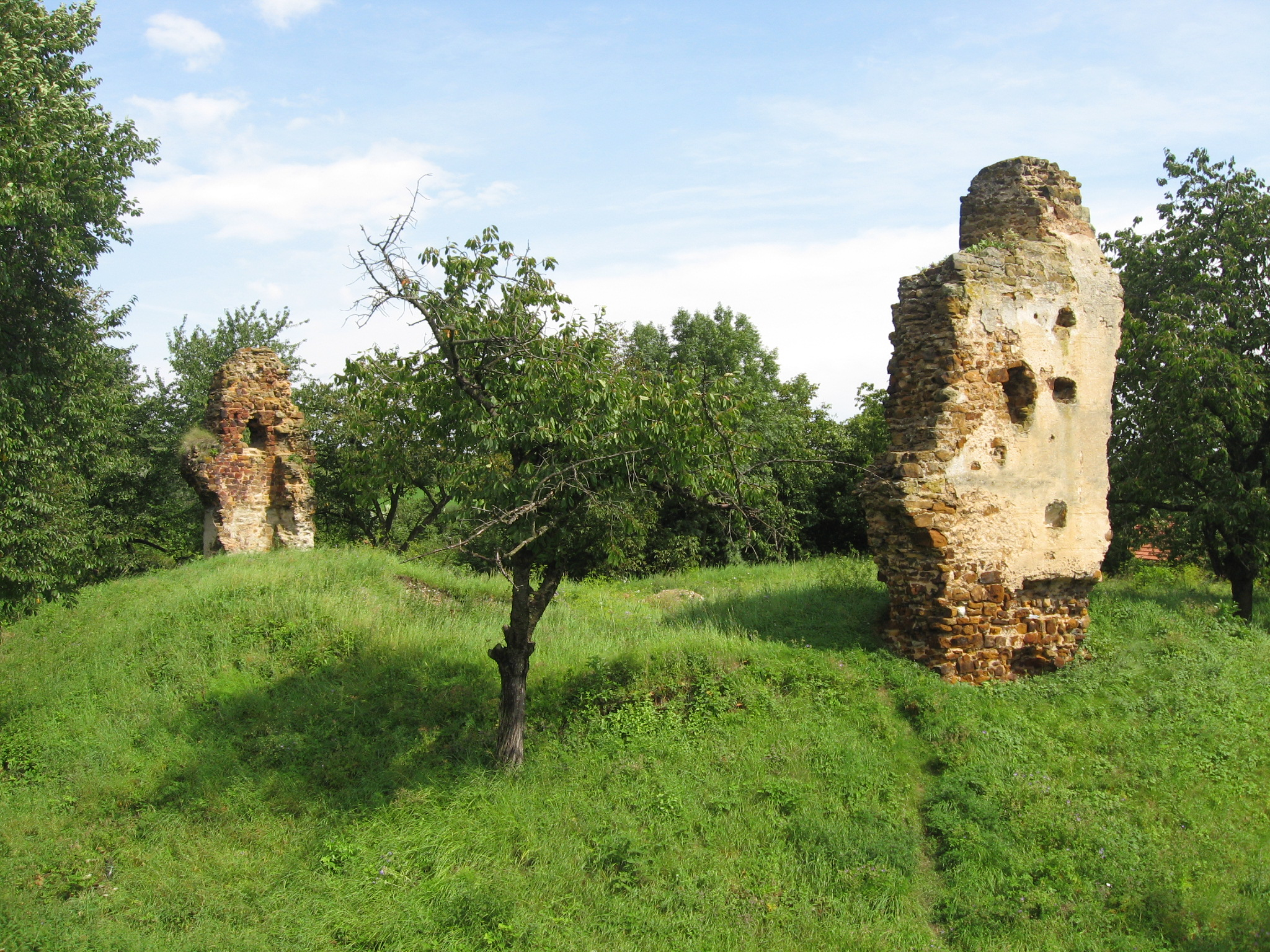 Remains of the castle Žerotín, (Louny District, Czech Republic)